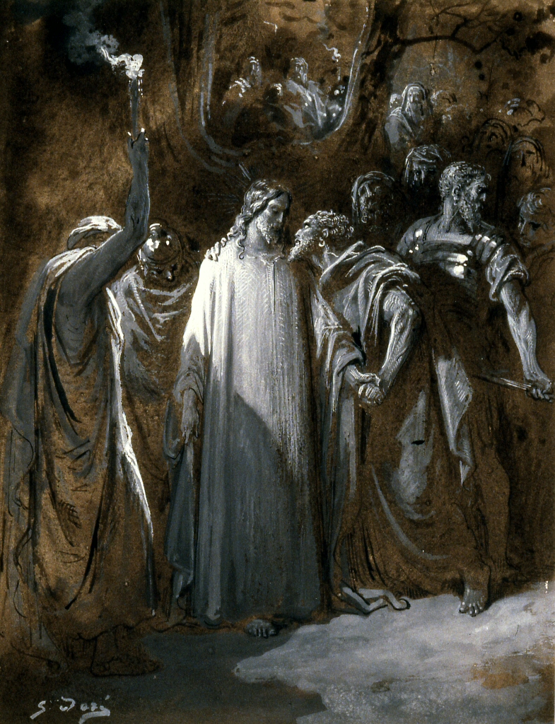 Although executed a year in advance of the final illustration and unlikely to have been used directly in the wood-engraving process, this drawing corresponds closely to the composition of the image published in Doré's illustrated Bible. It demonstrates the way in which the dramatic chiaroscuro (contrasting light and dark effects) of Doré's watercolor technique was translated into the linear medium of print. The passage illustrated is from the New Testament, Mark 14:43-46: "And immediately, while he yet spake, cometh Judas, one of the twelve, and with him a great multitude with swords and staves, from the chief priests and the scribes and the elders. And he that betrayed him had given them a token, saying, Whomsoever I shall kiss, that same is he; take him, and lead him away safely. And as soon as he was come, he goeth straightway to him, and saith, Master, master; and kissed him. And they laid their hands on him, and took him." [KJV]